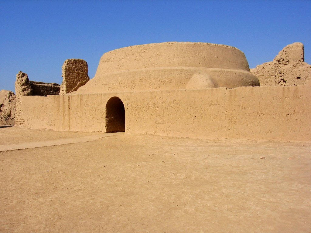 The ruins of Ancient city of Gaochang: Gaochang was built in I century BC. Was an important site along the Silk Road. We still can see old palace ruins and inside and outside cities. It's located 30 Km from Turpan.